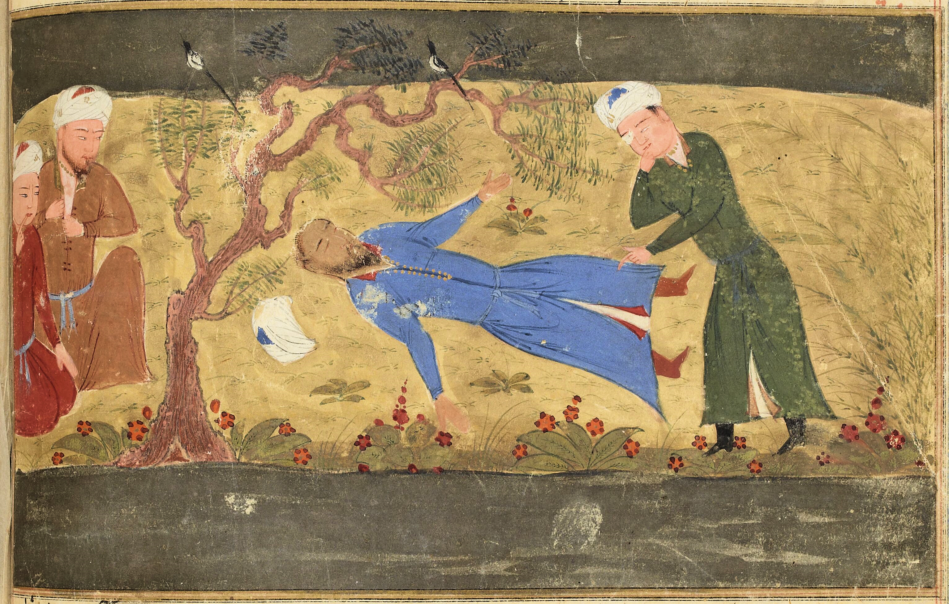 Death of Muhammad II of Khwarezm. Jami' al-tawarikh, Rashid al-Din.